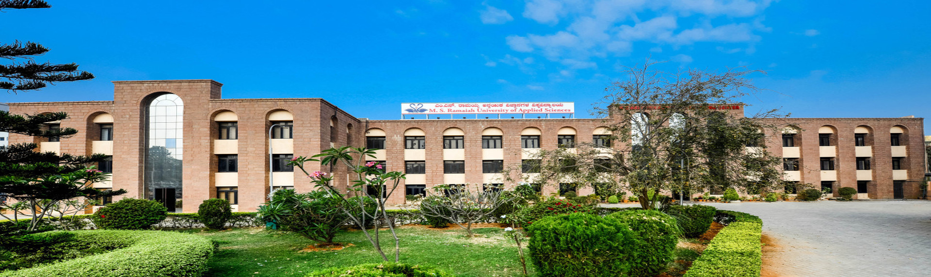 University House, Gnanagangothri Campus